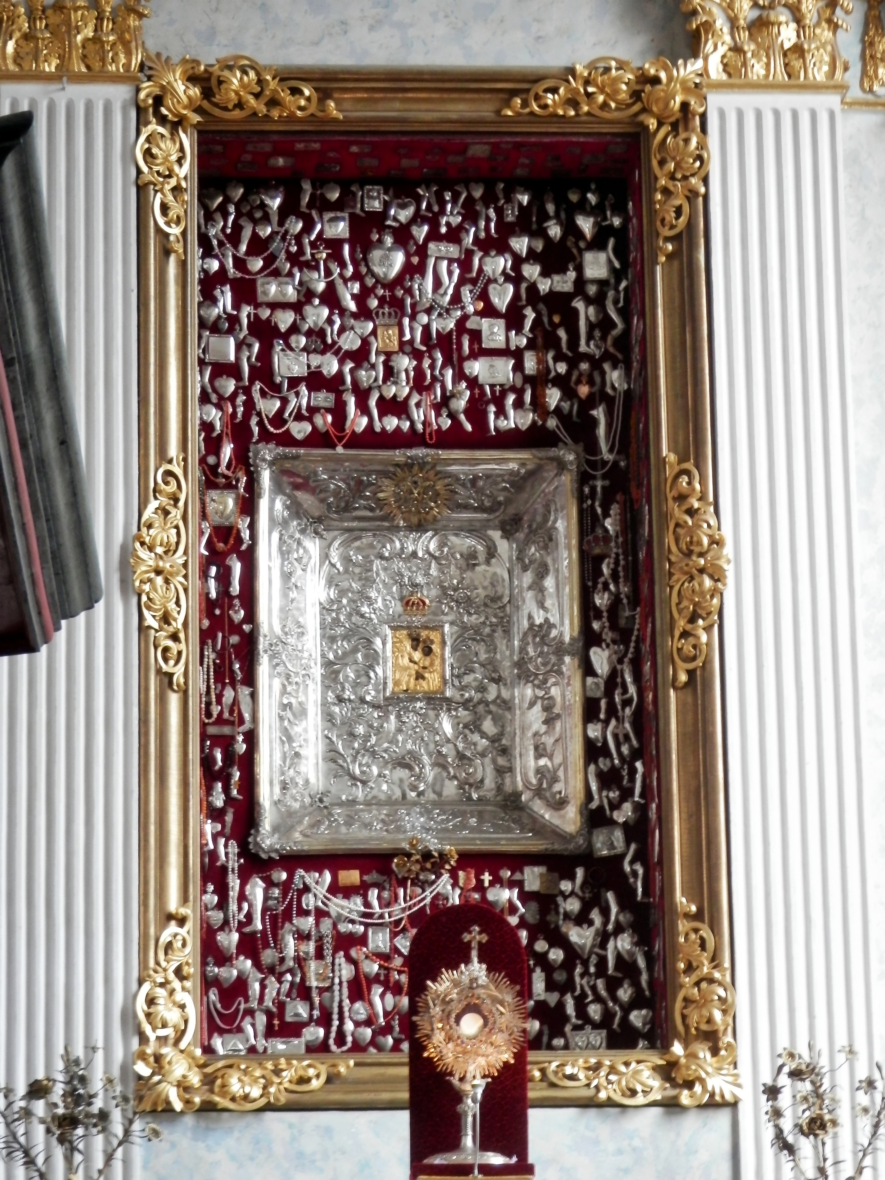 St. Francis Xavier Cathedral, Grodno